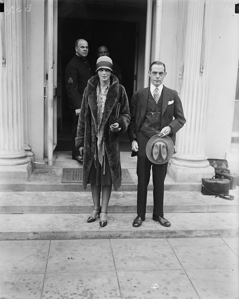 Amelia Earhart of transatlantic fame is received by President Coolidge. Miss Amelia Earhart of Boston (left) who was the first woman to fly across the Atlantic, was received by President Coolidge today. She is shown in this photograph with Porter S. Adams, President of the National Aeronautic Association